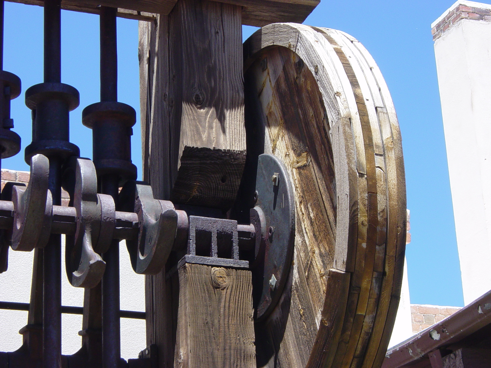 Detail of a Californian type Stamp mill, showing the offset cams which cause rotation of the suspended stamp mechanism to ensure even wear of the lifter and the stamp. Image by User:Leonard G. thumb|right|200px|overview